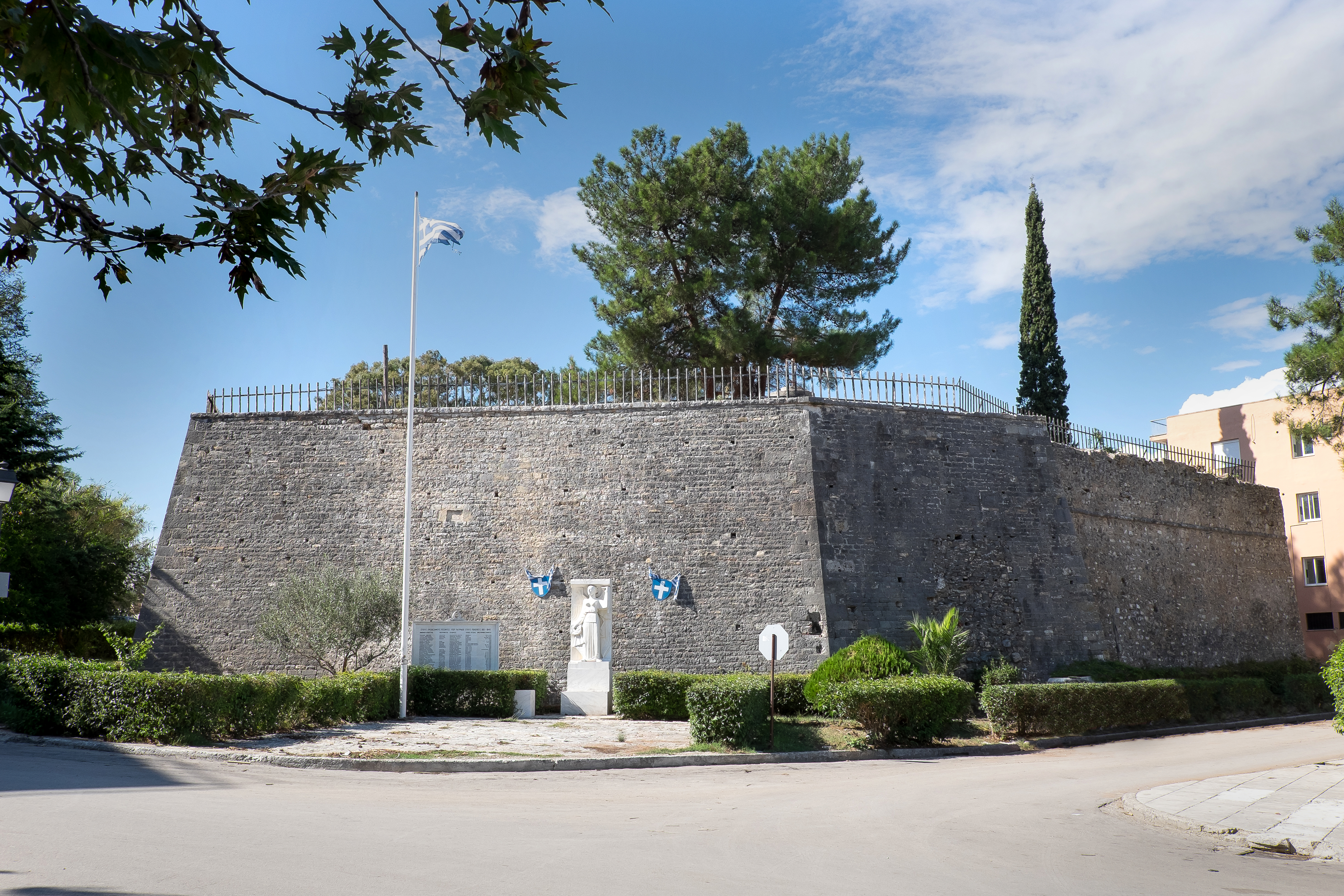 The castle of St. Andrew, Preveza, Greece. View from the south-east.